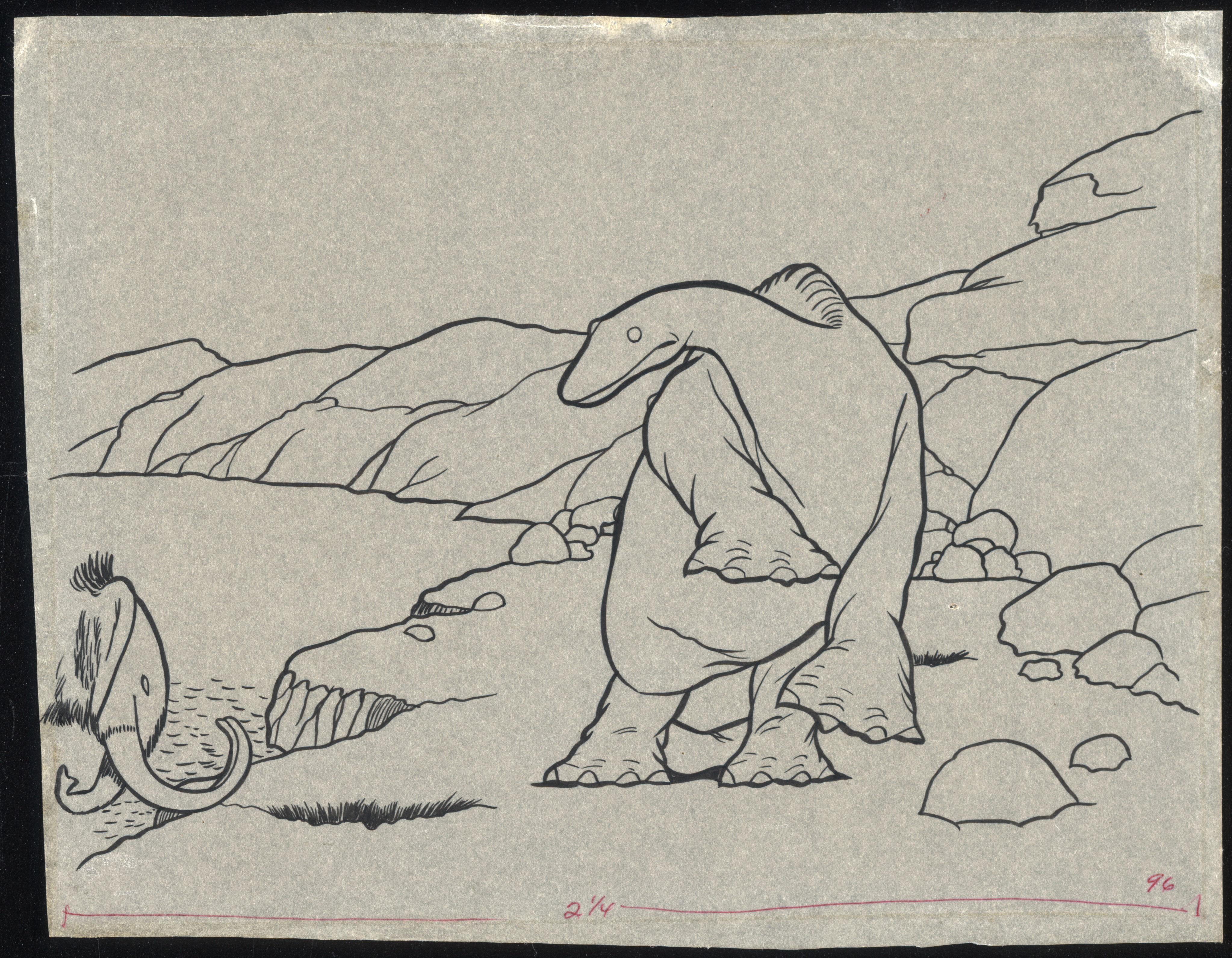 Original artwork for a frame of Winsor McCay's animated film Gertie the Dinosaur (1914). Gertie is looking at a mastodon named Jumbo.